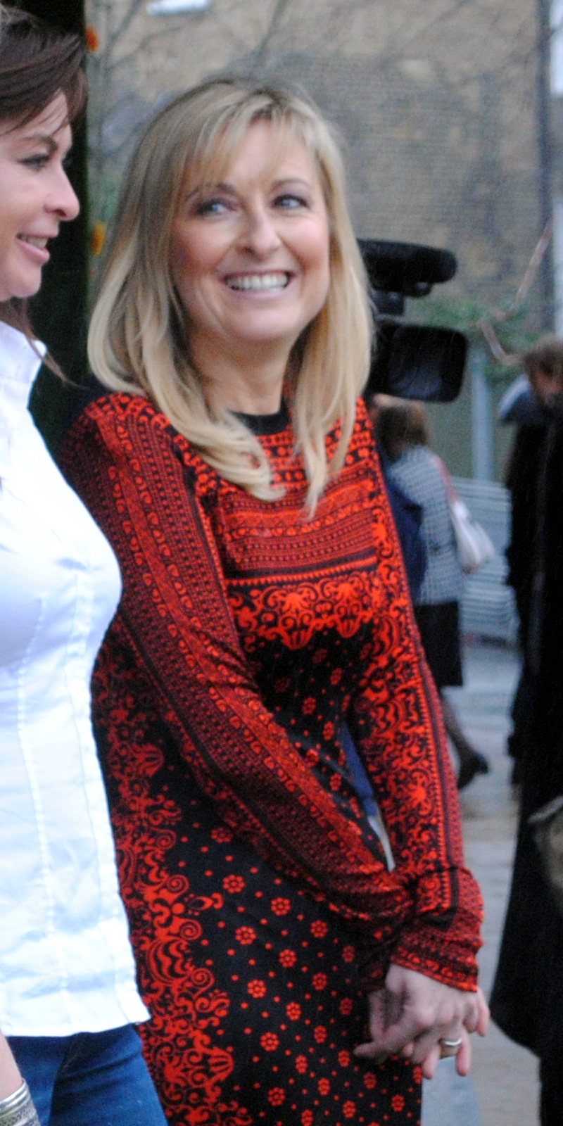 Crop of Fiona Phillips from photo with Monty Don, Linda Barker & Suzi Perry. Levels adjusted. described on Flickr as 'We joined forced with Black and Decker to attend the 2010 Ideal Home Show, Earl's Court, London'